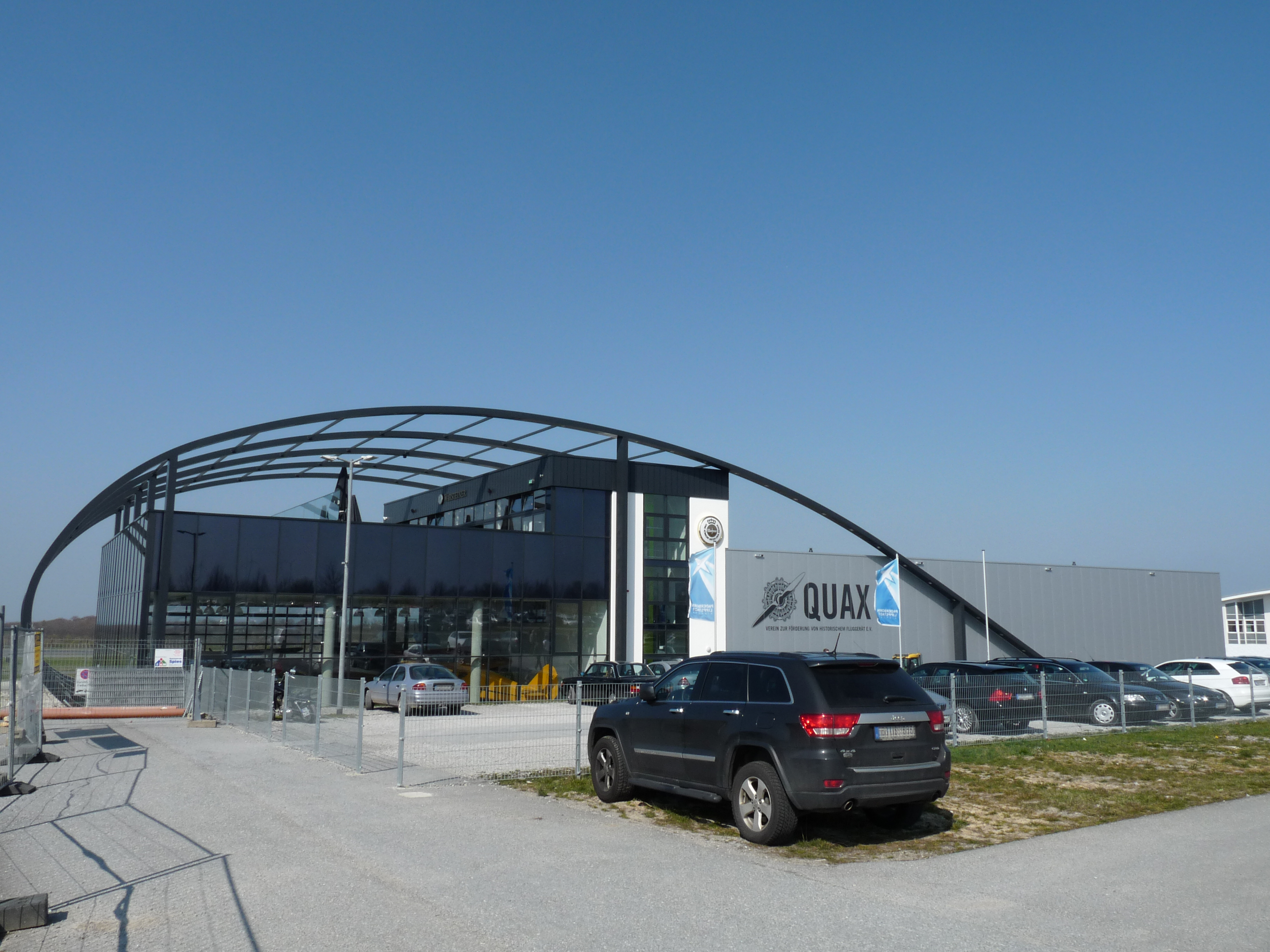 Quax-Hangar at Paderborn Lippstadt Airport